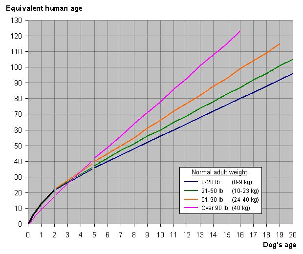 Graph comparing the biological age of humans and dogs of various sizes